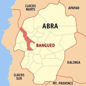 Map of Abra showing the location of Bangued